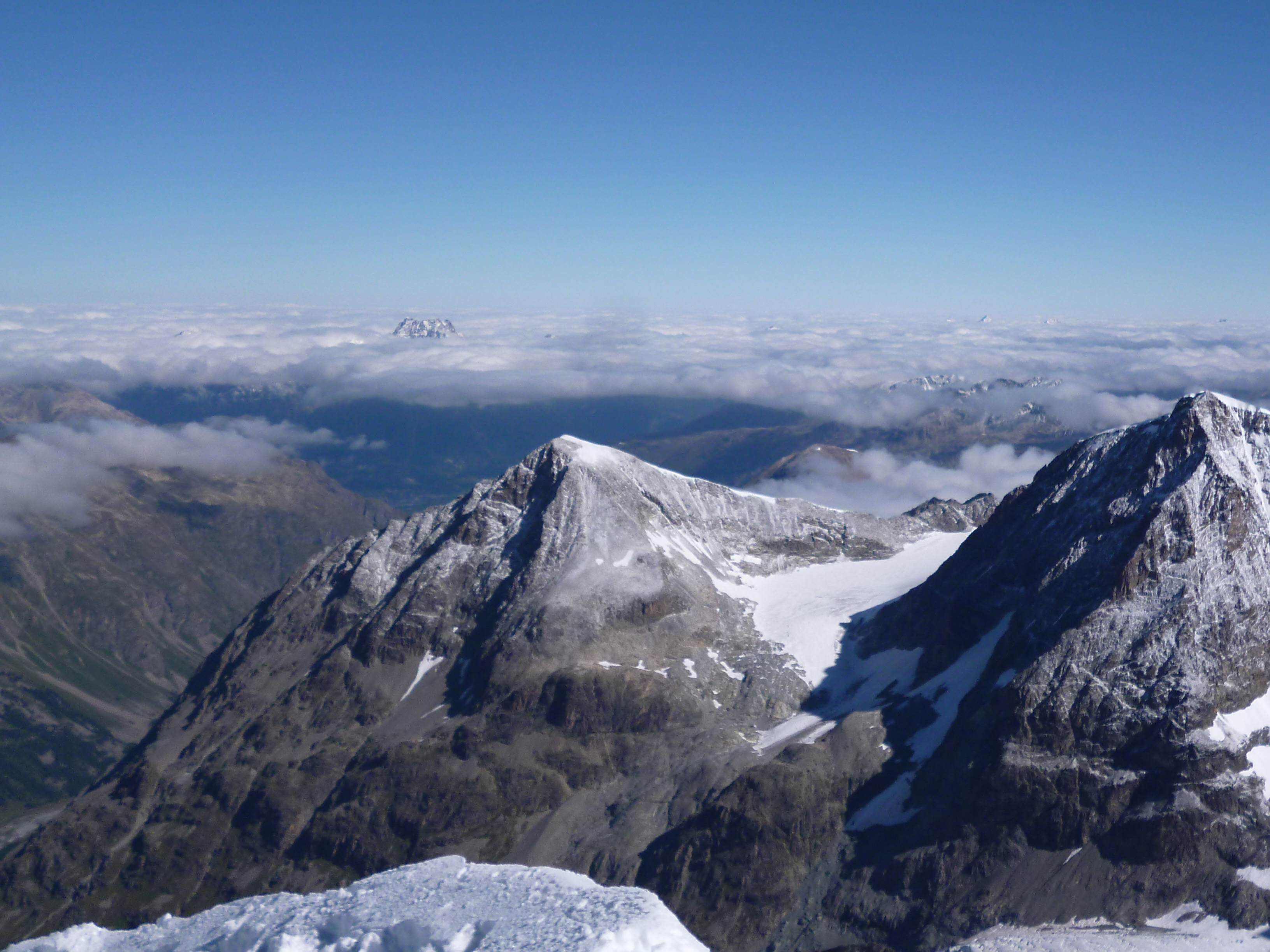 Piz Tschierva von Süden, vom Piz Roseg